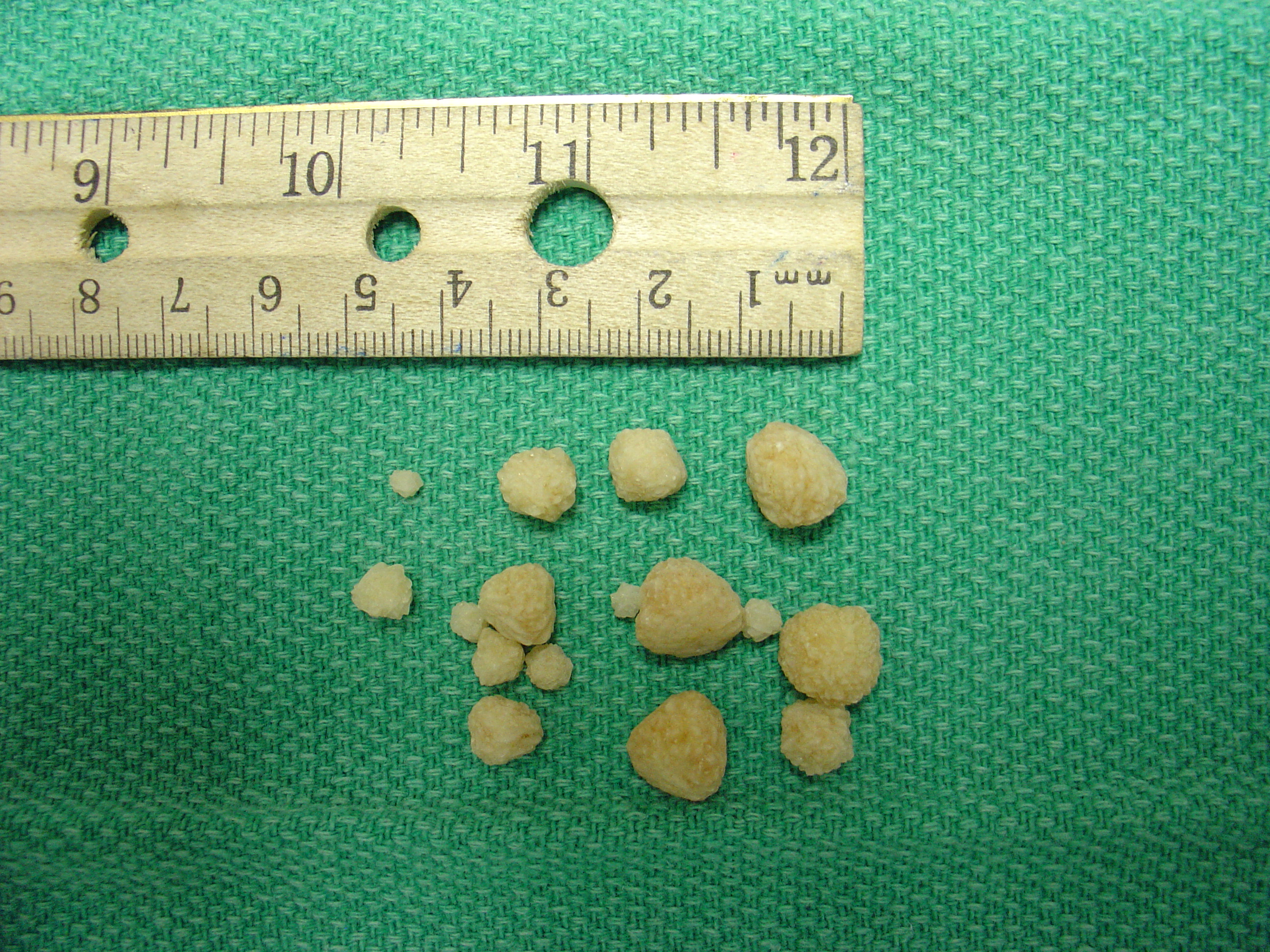 Photo of calcium oxalate stones found in the urinary bladder of a dog.